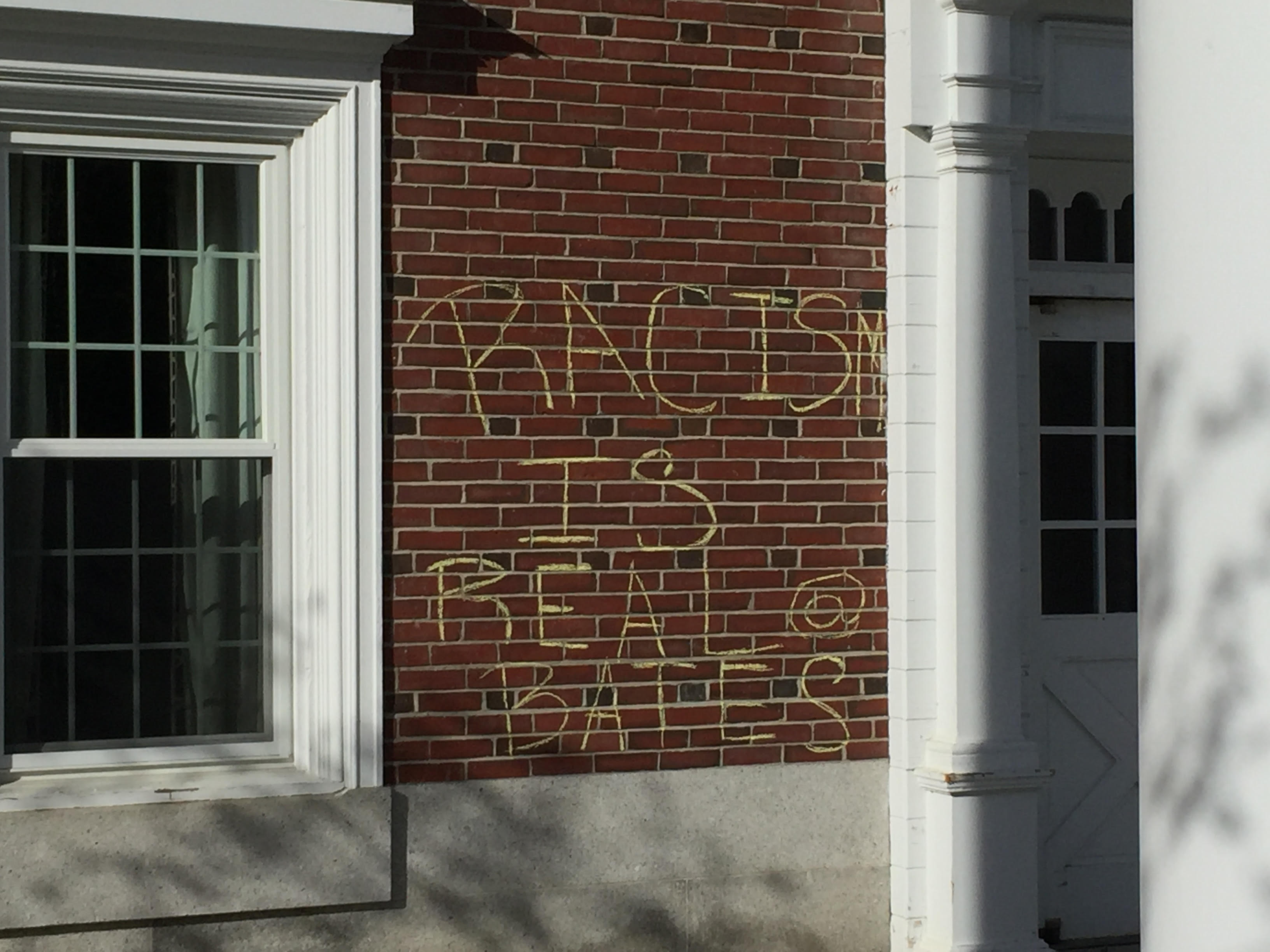 Student Activism at Bates